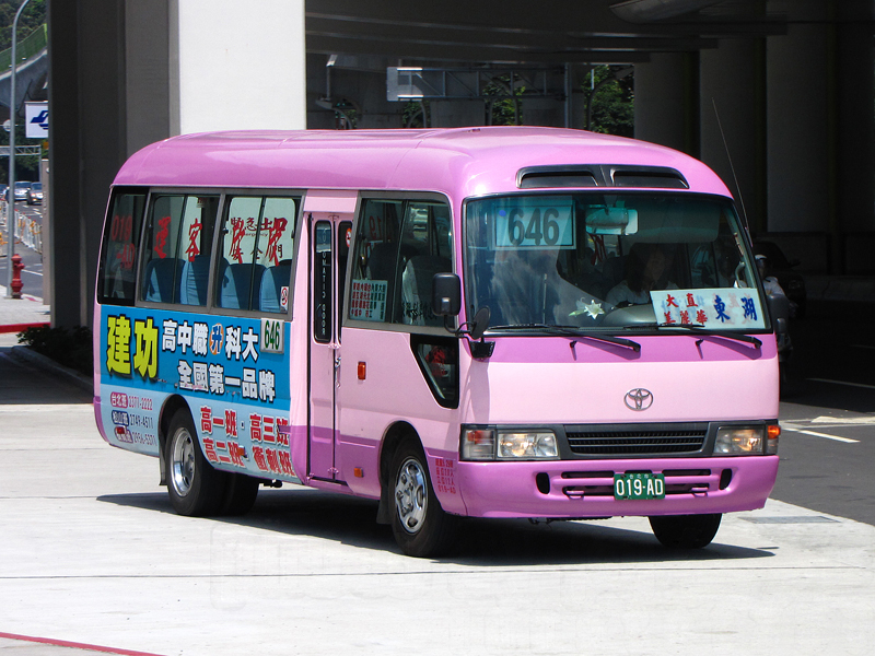 Toyota Coaster KC-BB58L of Shin-Shin Bus 019-AD